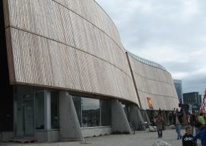 Photo of Katuaq (in Danish Kulturhuset, house of culture) in Nuuk, Greenland. Photo by Aputsiaq Janussen, hereby licensed under GNU FDL.